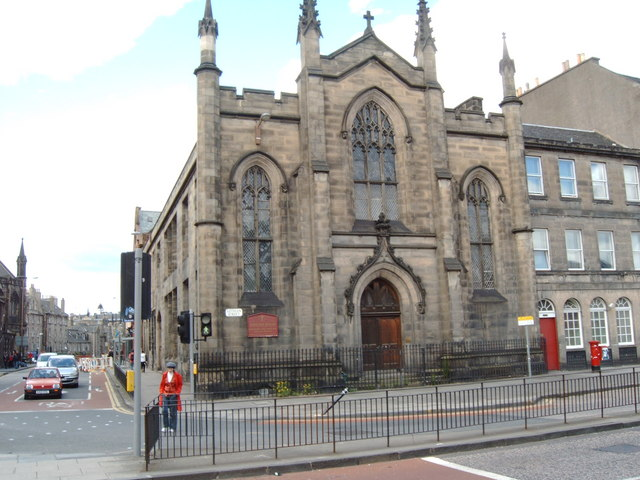 Jericho House Long stay care for adults with mental illness and /or alcohol dependence